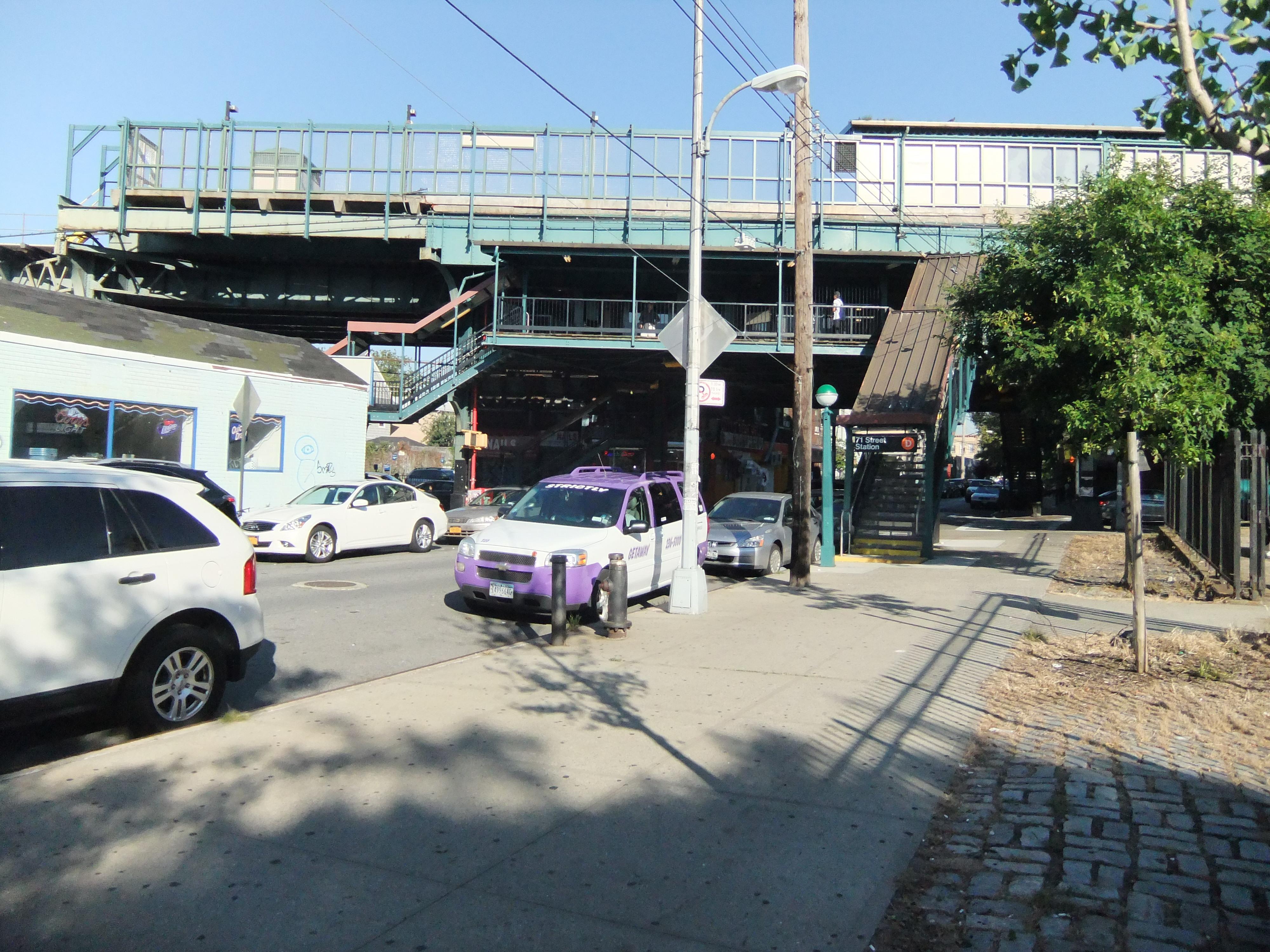 Stair at NE corner of 71st Street/New Utrecht Ave to 71st Street BMT station